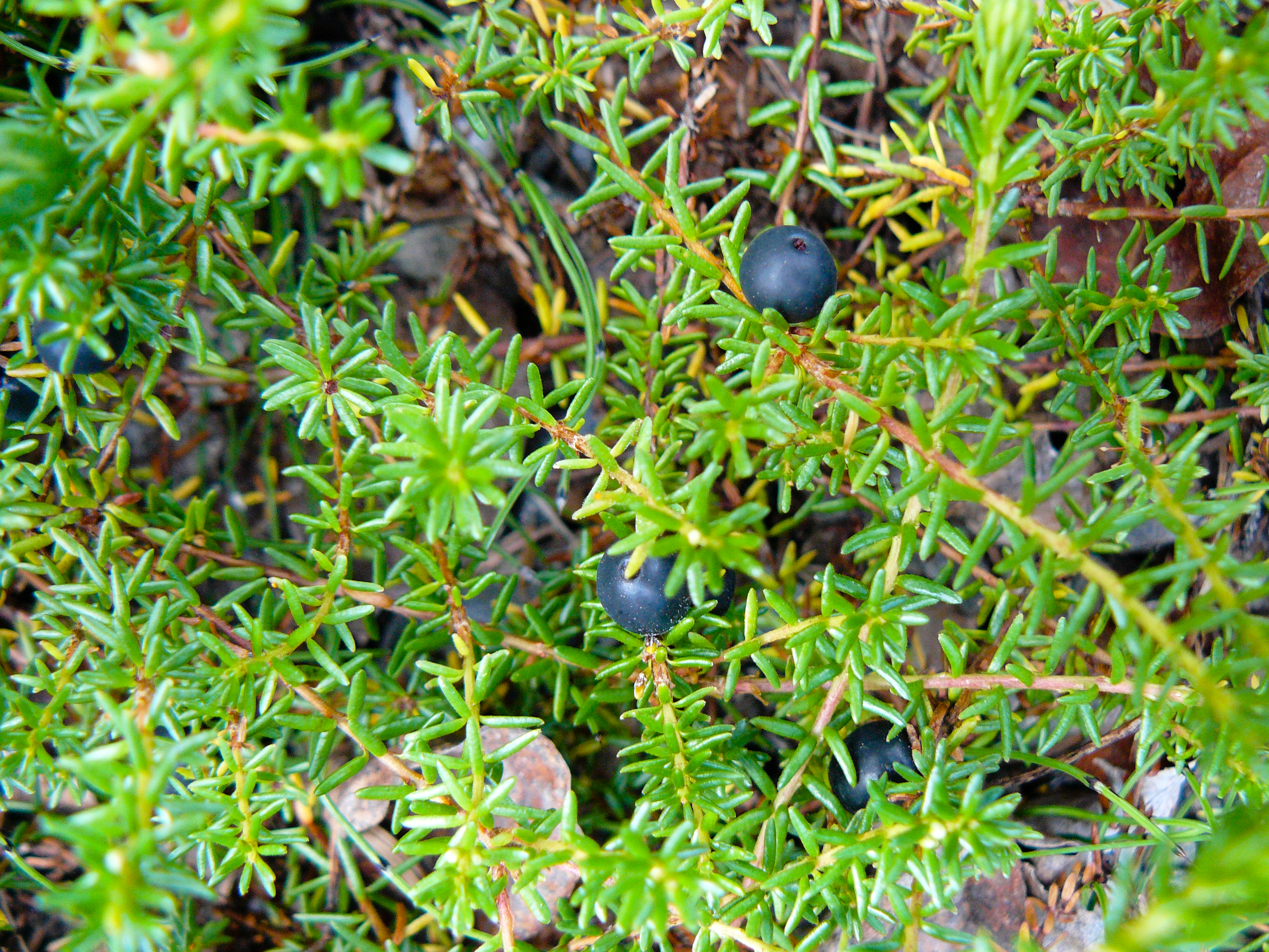 Empetrum nigrum in the woods at Riley Creek Campground in Denali National Park, Alaska.